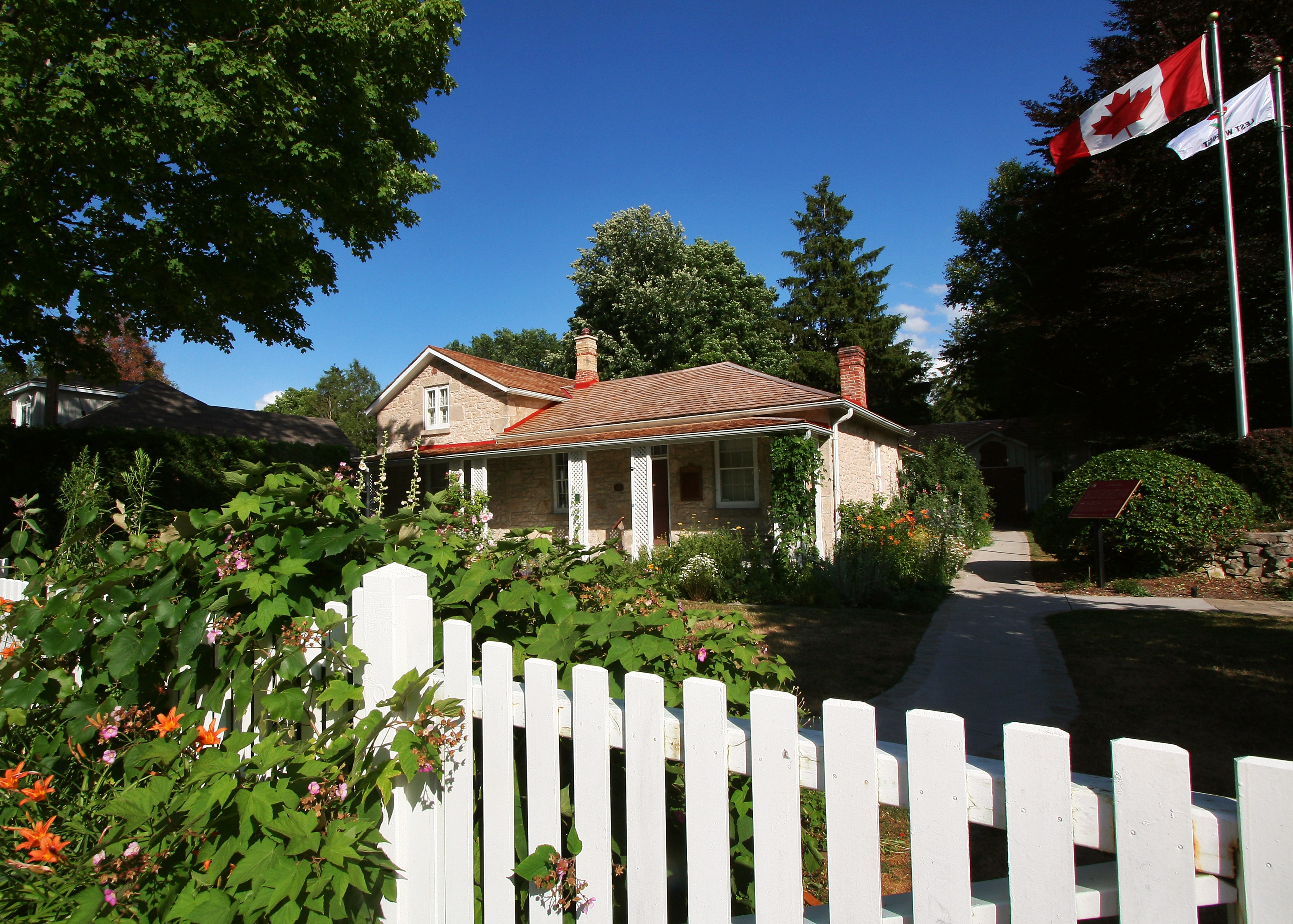 McCrae House, a National Historic Site in Guelph, Ontario